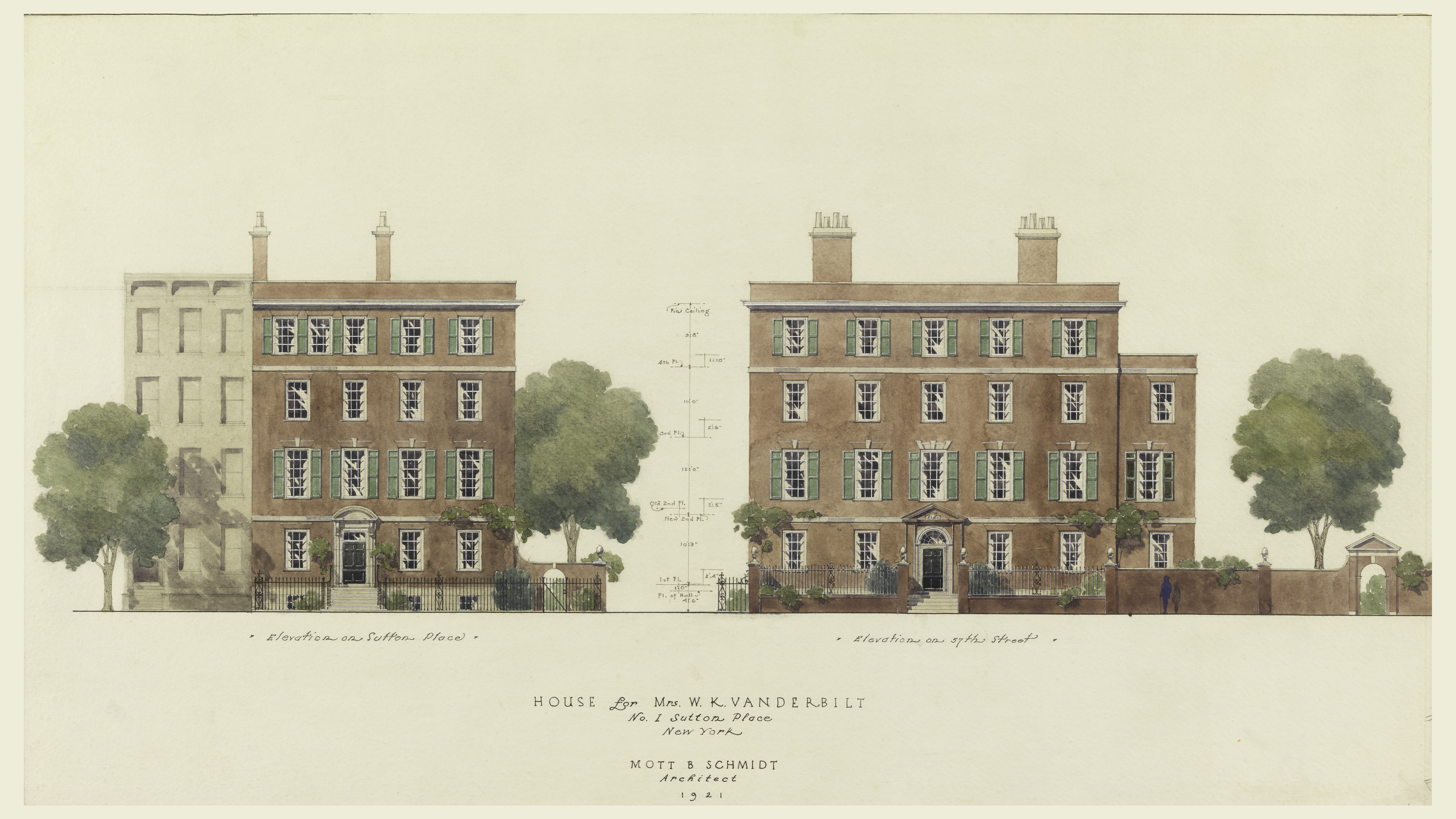 Front and side elevations of a four story brick and limestone trim corner house, erected for Mrs. William K. Vanderbilt on the northeast corner of Sutton Place and 57th Street, New York. Scale indicated. Inscribed below: “House for Mrs. W. K. Vanderbilt / No. 1 Sutton Place / New York / Mott B. Schmidt / Architect / 1921.”